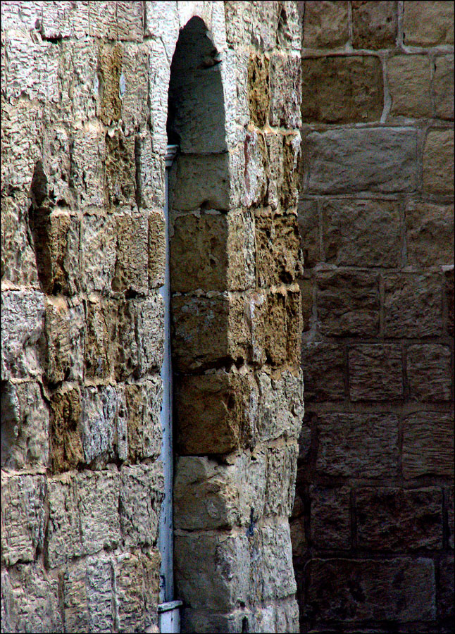 Carlo Muscat